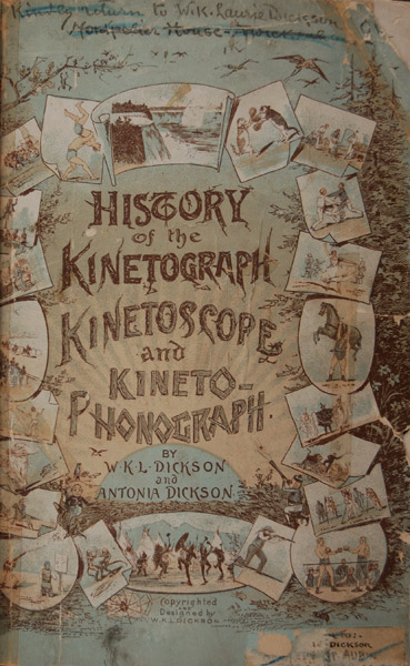 Cover illustration by William Kennedy Dickson for the 1895 book History of the Kinetograph, Kinetoscope, and Kinetophonograph